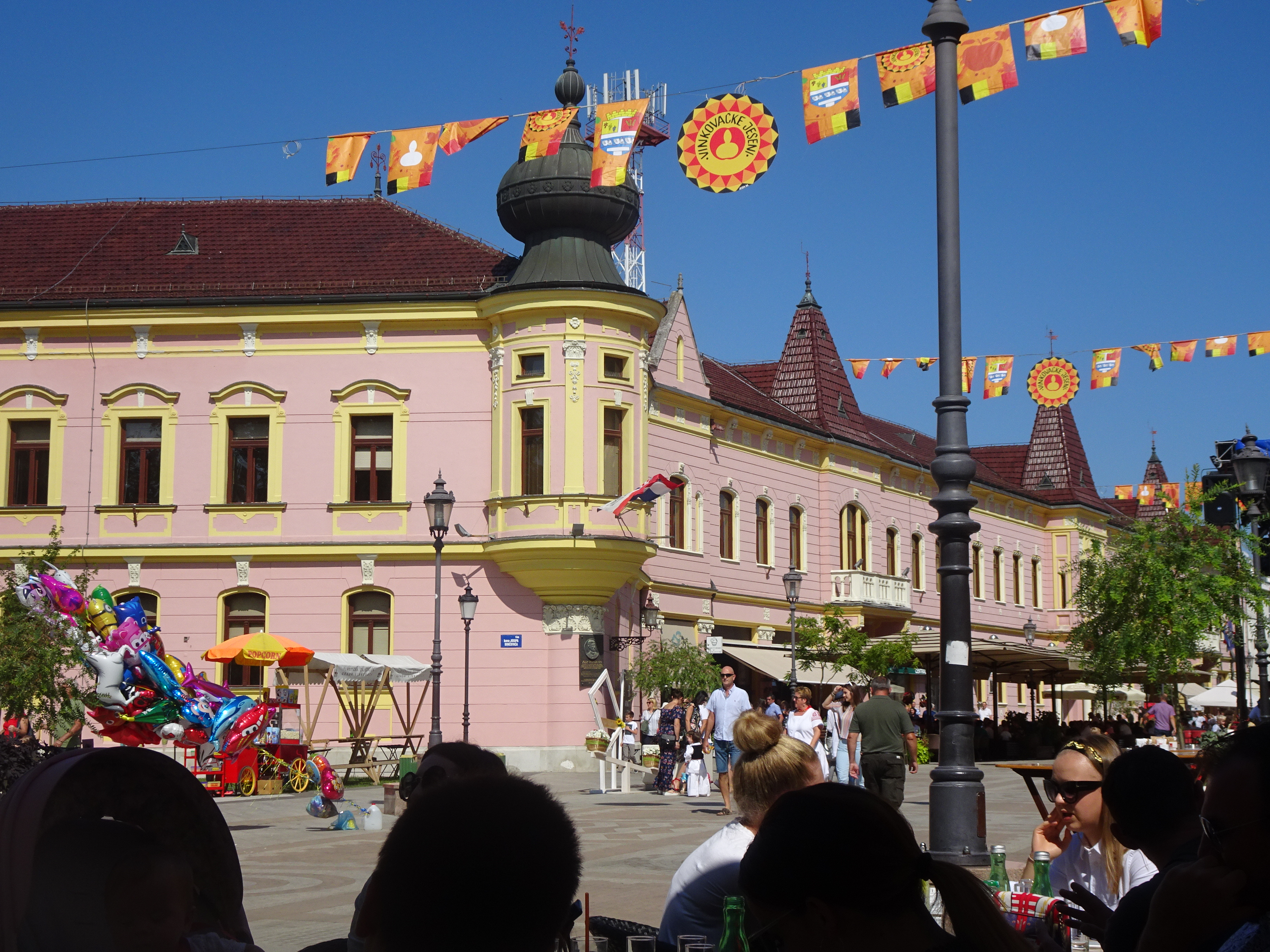 Vinkovci, Slavonia, Croatia